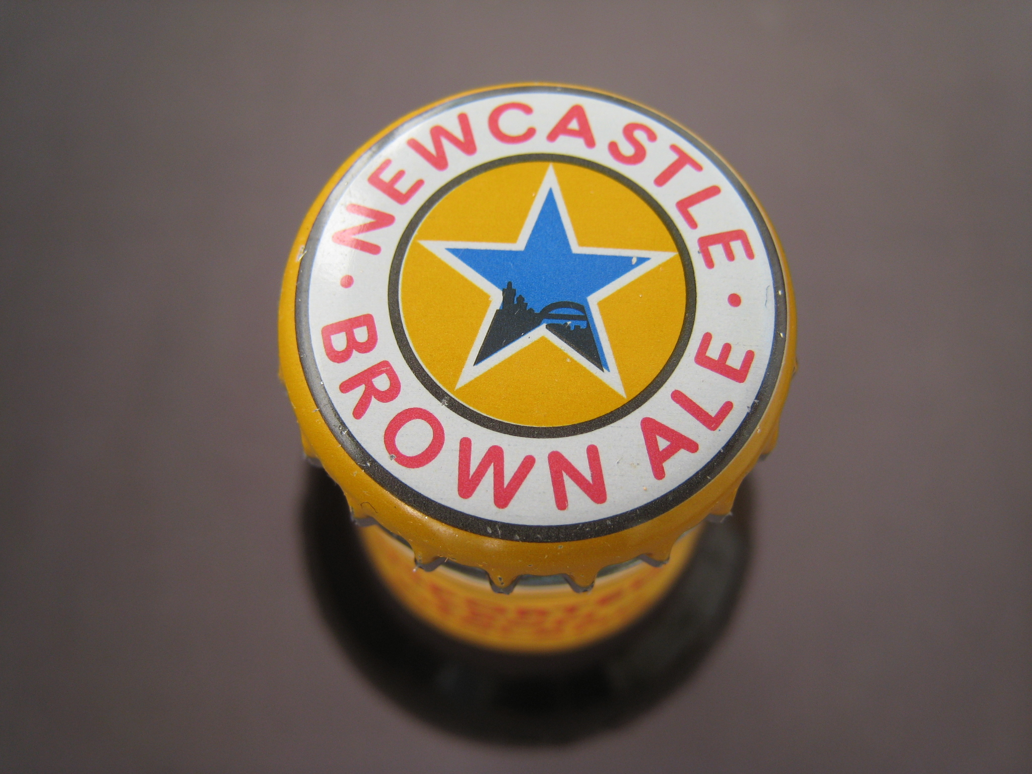 A Newcastle Brown Ale bottle, pictured from above